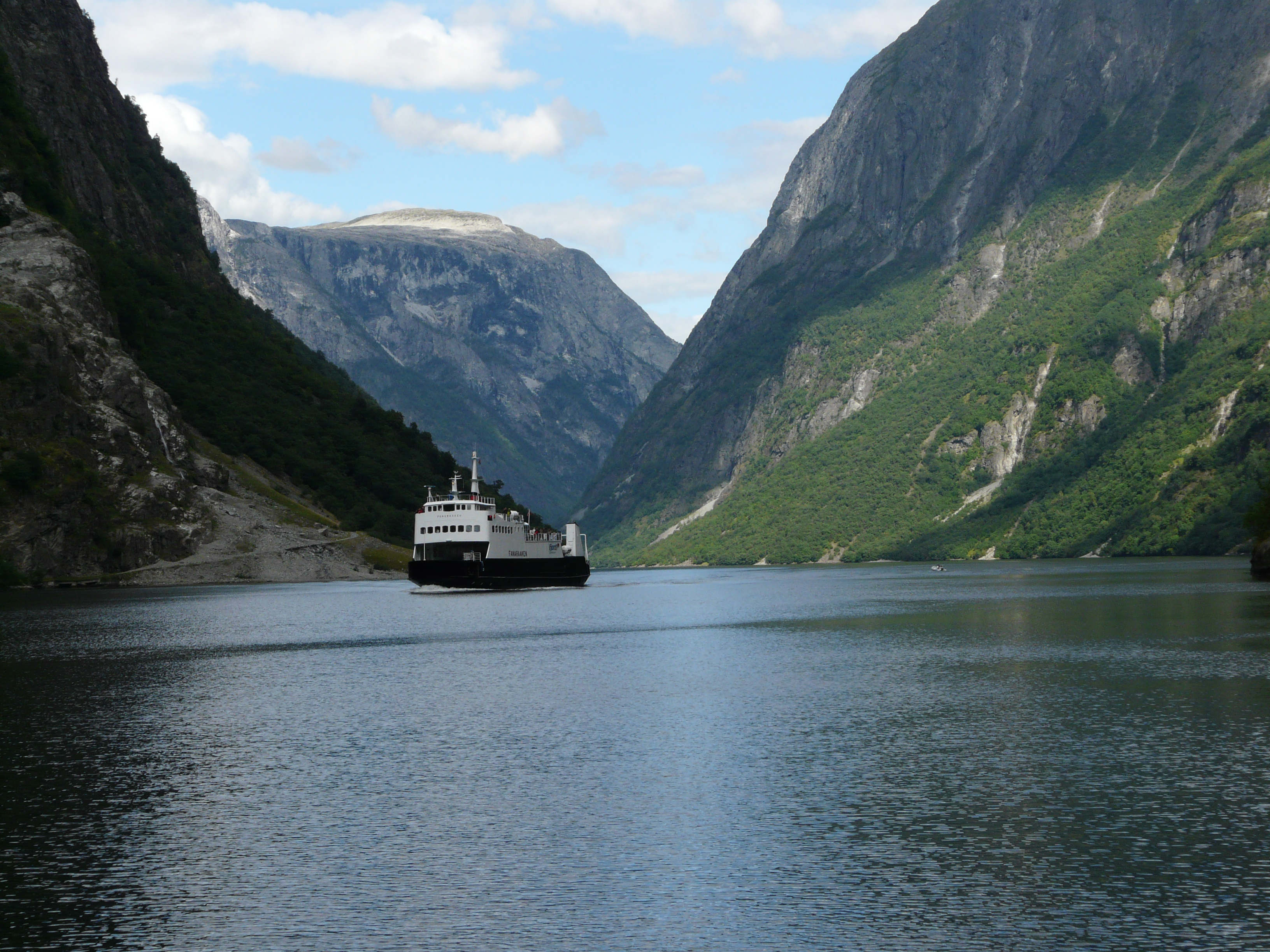 MF «Fanaraaken» in Gudvangen